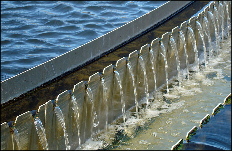 Katwijk, Netherlands, Water purification plant - RWZI (Rijnland)